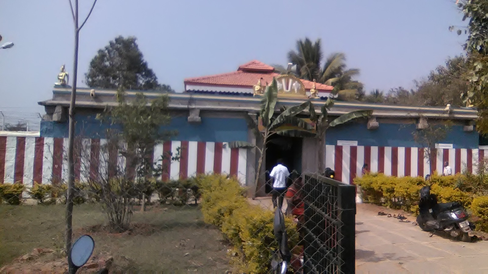 இரங்கோபண்டித அக்ராரம் வேணுகோபால சுவாமி கோயில்